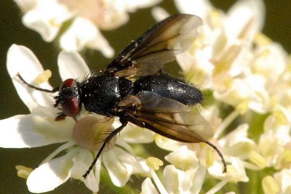 Wagneria costata from Commanster, Belgian High Ardennes .